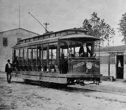 Street in Valdosta around 1912.